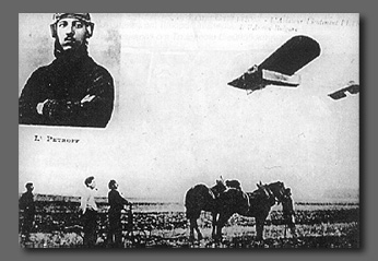 postcard